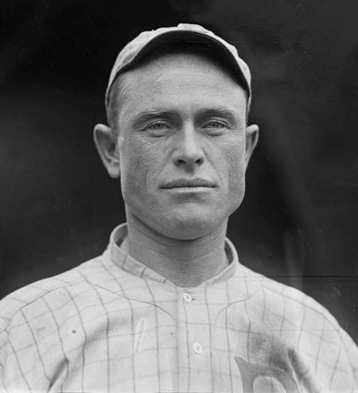 Larry Cheney, head-and-shoulders portrait